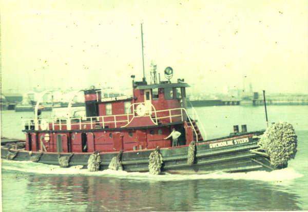 Gwendoline Steers Circa 1955